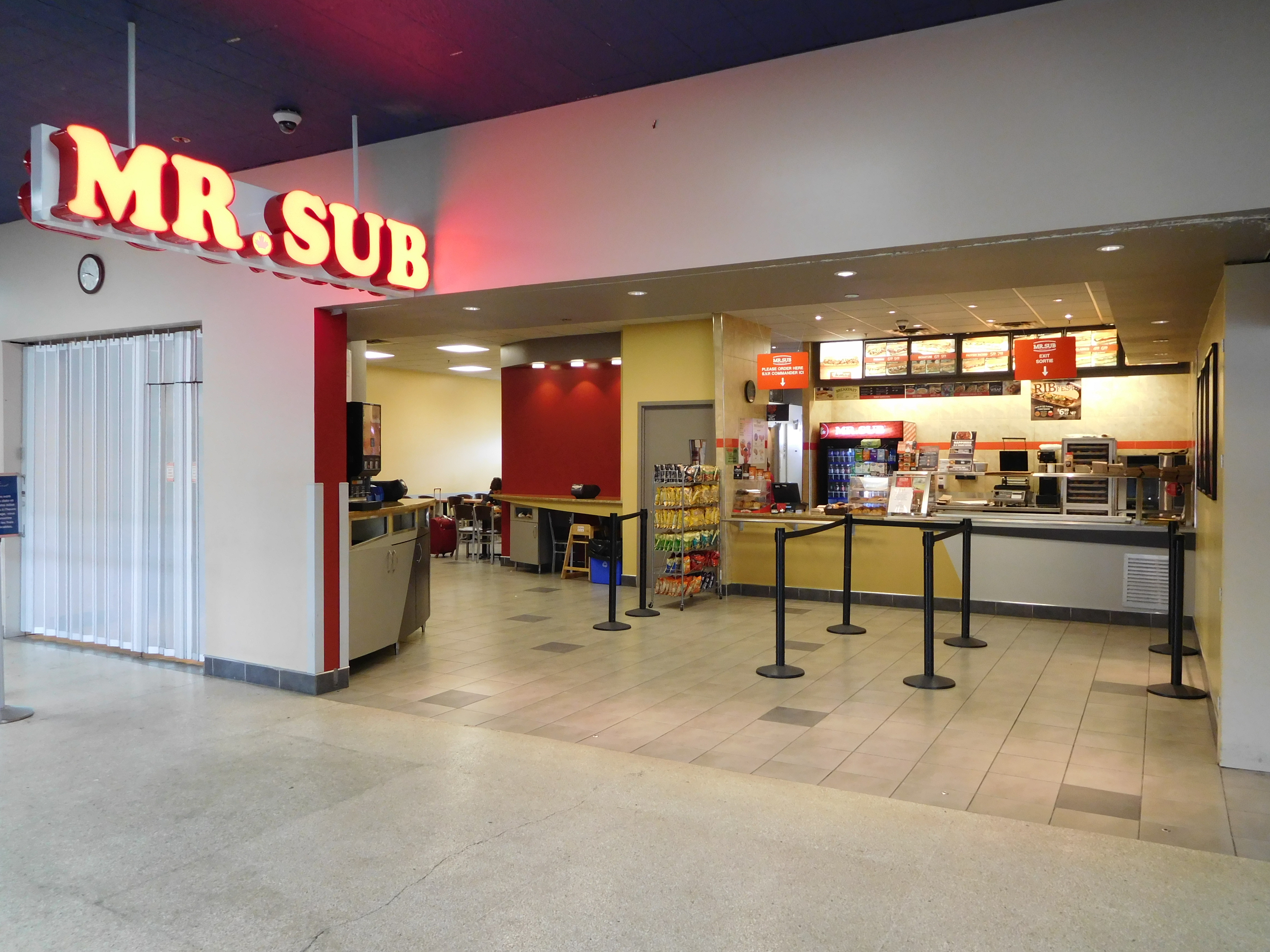 Mr. Sub, 265 Catherine Street, Ottawa In the Ottawa Central Station